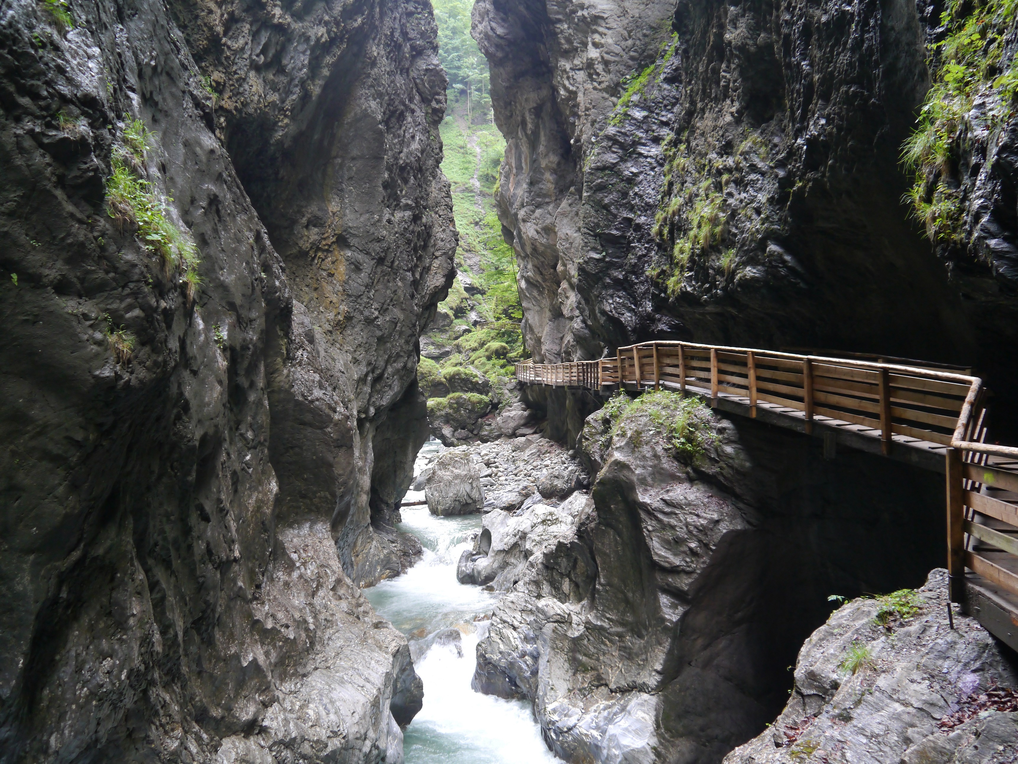 Liechtenstein Ravine, Federal State of Salzburg (Austria)